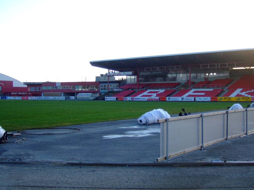 Bryne Stadion, Rogaland Norway